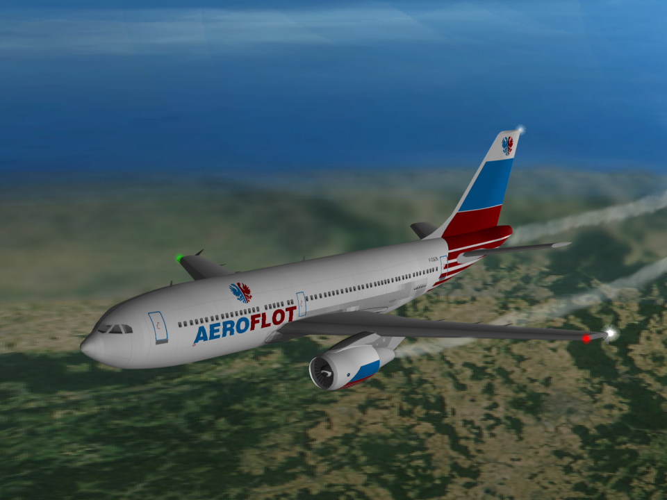 Airbus A310A F-OGQS was an Aeroflot aircraft which crashed in March 1994 as Flight 593